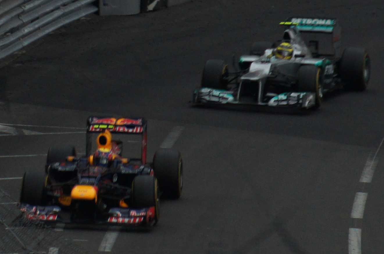 Mark Webber leads the final lap of the 2012 Monaco Grand Prix, followed closely by Nico Rosberg.